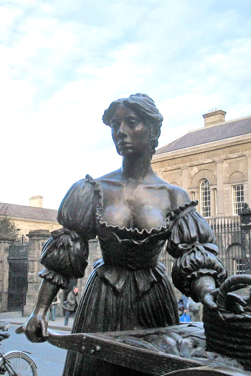 Molly Malone statue